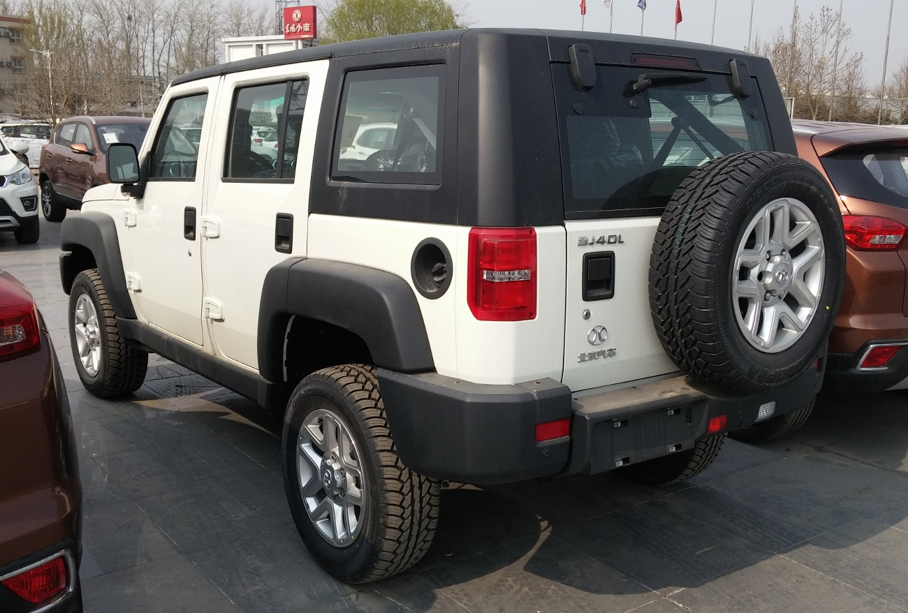 Beijing BJ40L photographed in Beijing, China.